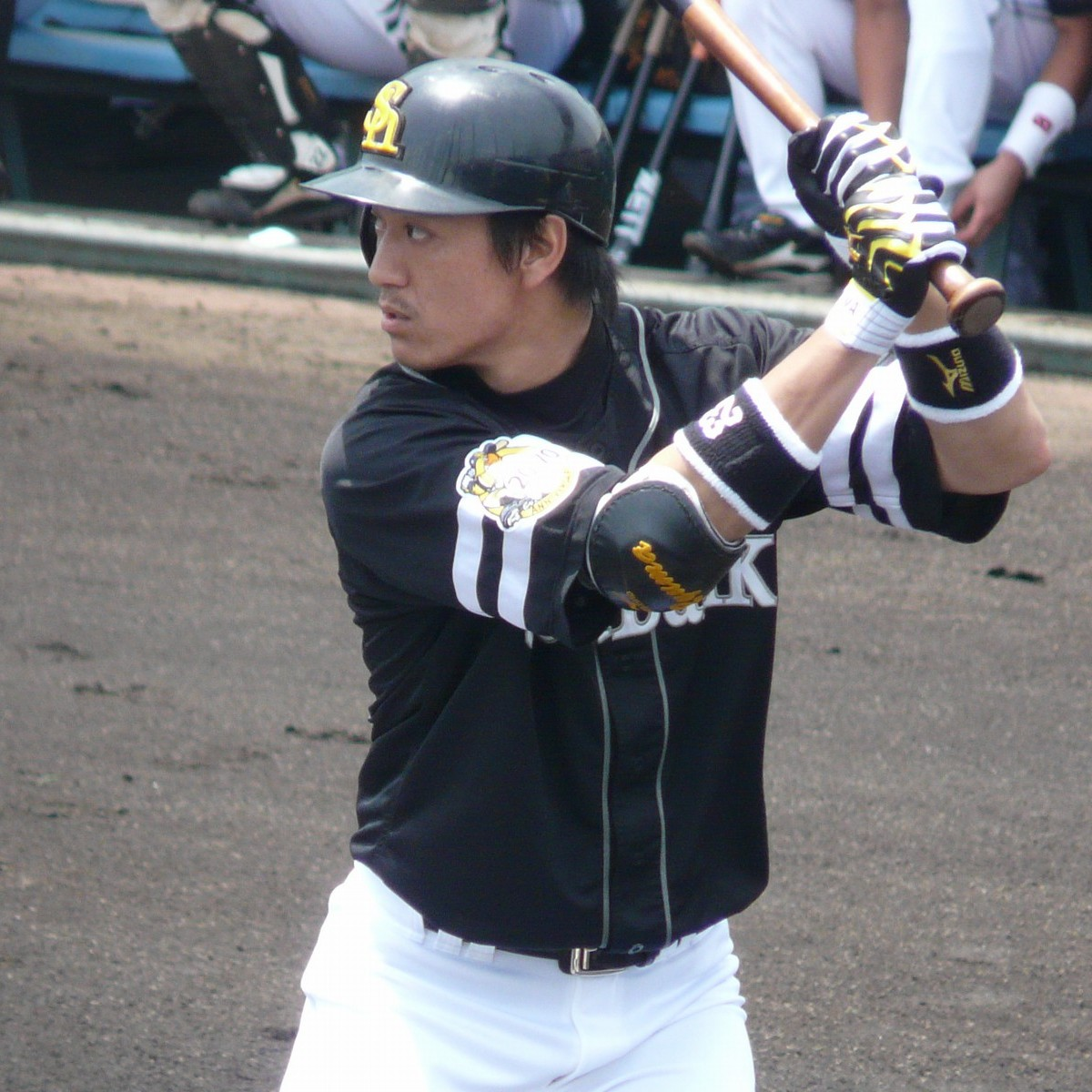 Ryuma Kidokoro, outfielder of the Fukuoka SoftBank Hawks, at Hanshin Naruohama Baseball Ground.